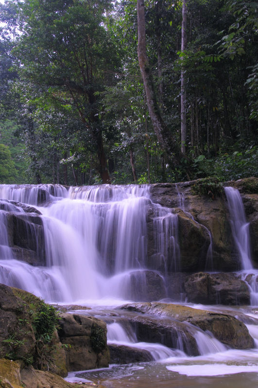 Waterfall Idaman, Tanjung Selor, Bulungan, Kalimantan Timur